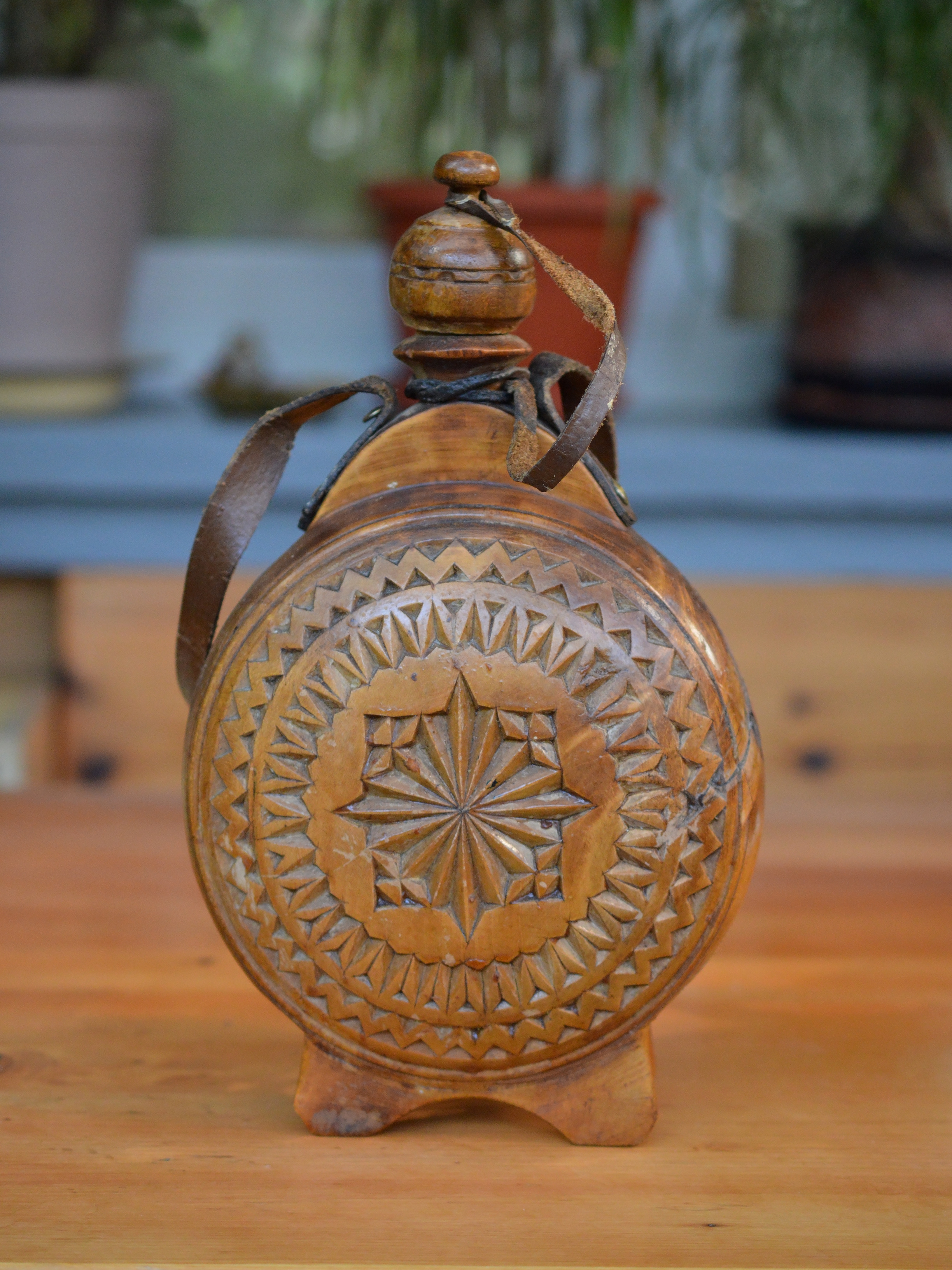 Bǎklitsa from Botevgrad municipality, Bulgaria.